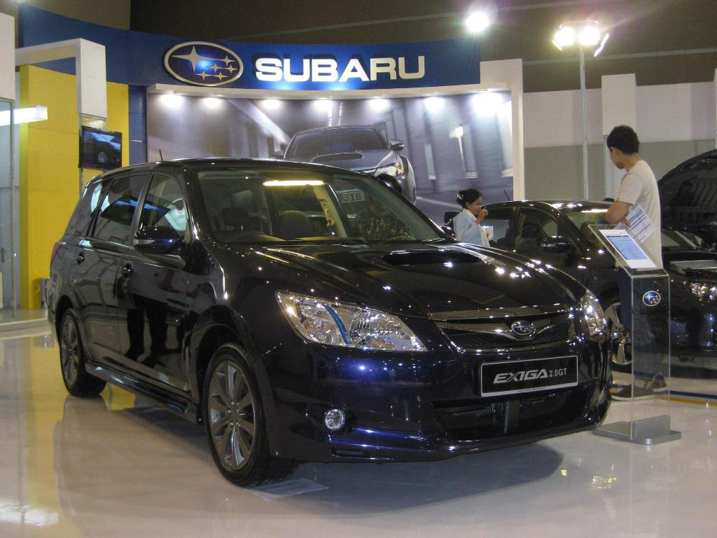 Subaru Exiga 2.0GT photographed at the 2010 Indonesia International Motor Show in Jakarta.